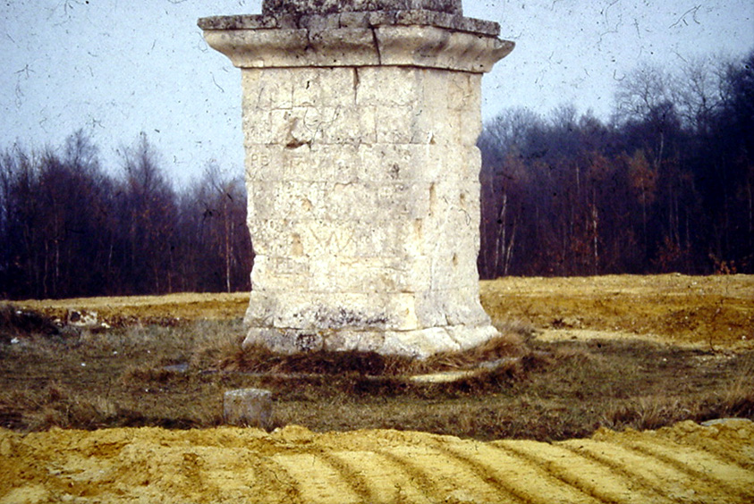 Site of Colonne d'Helfaut, Near Helfaut, Pas de Calais, north of france)